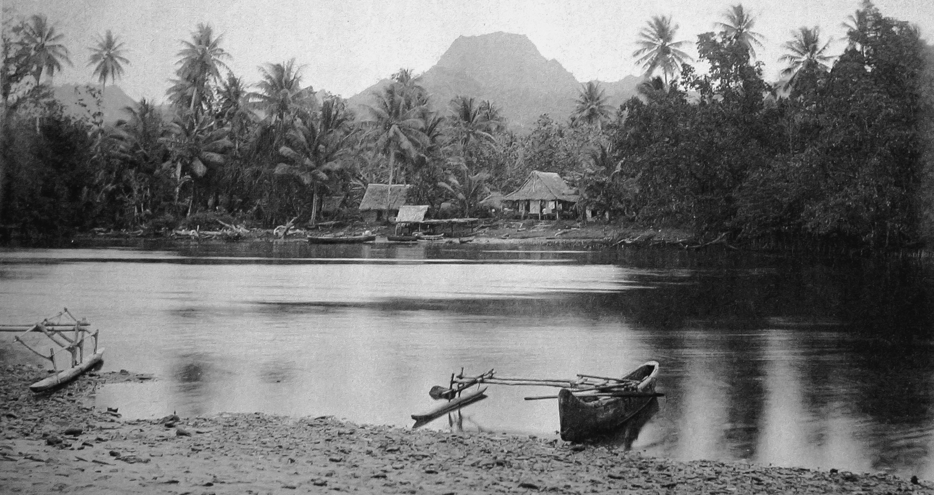 South Sea cruise 1899-1900, Caroline Chain, Port Lottin, Kusaie Island, Fengal Village. Note that this image is cropped and tones rebalanced.